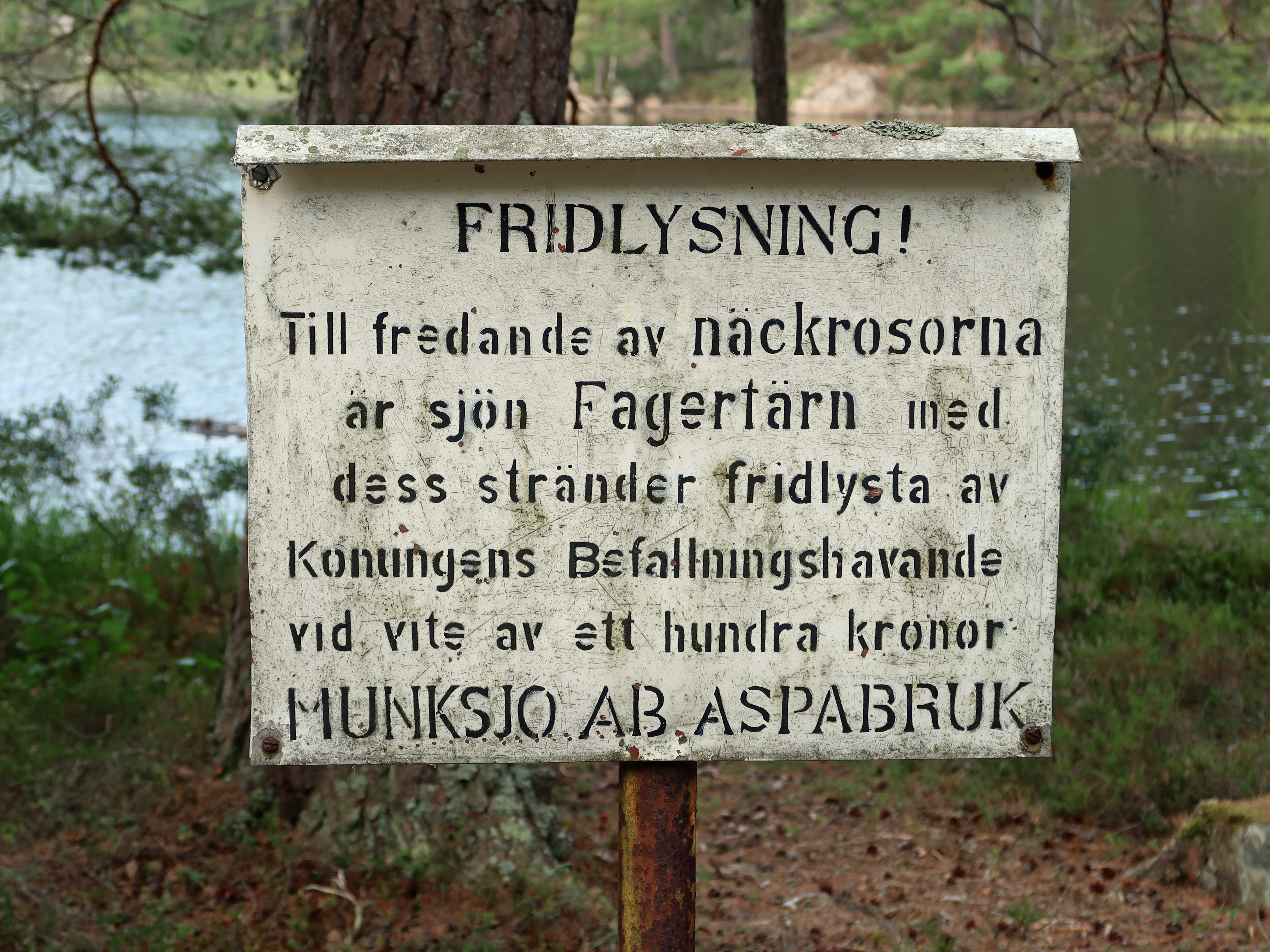 Old sign regarding the protection of the red water lilies